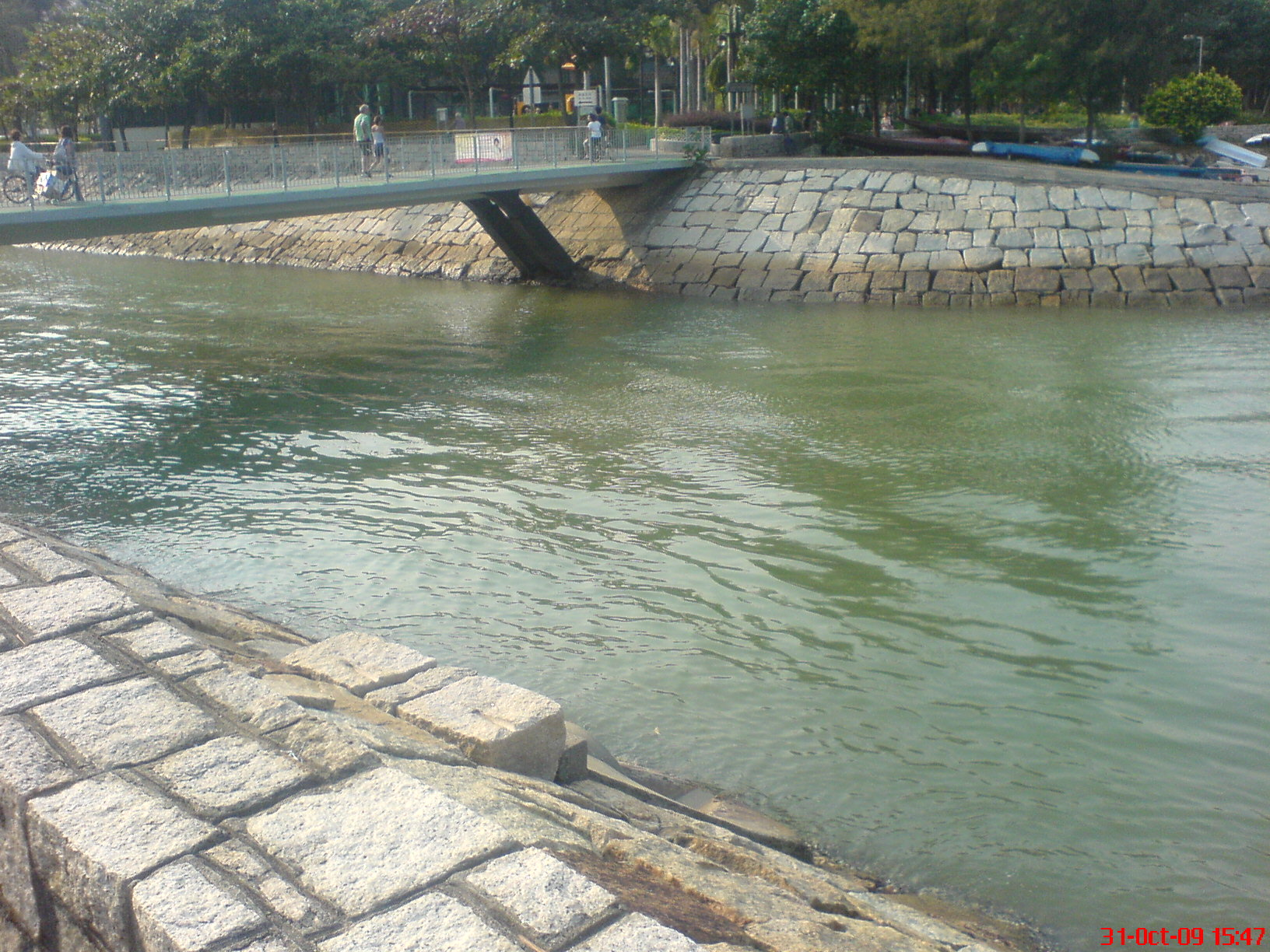 The river-sea boundary of Silver River on Lantau Island, Hong Kong.